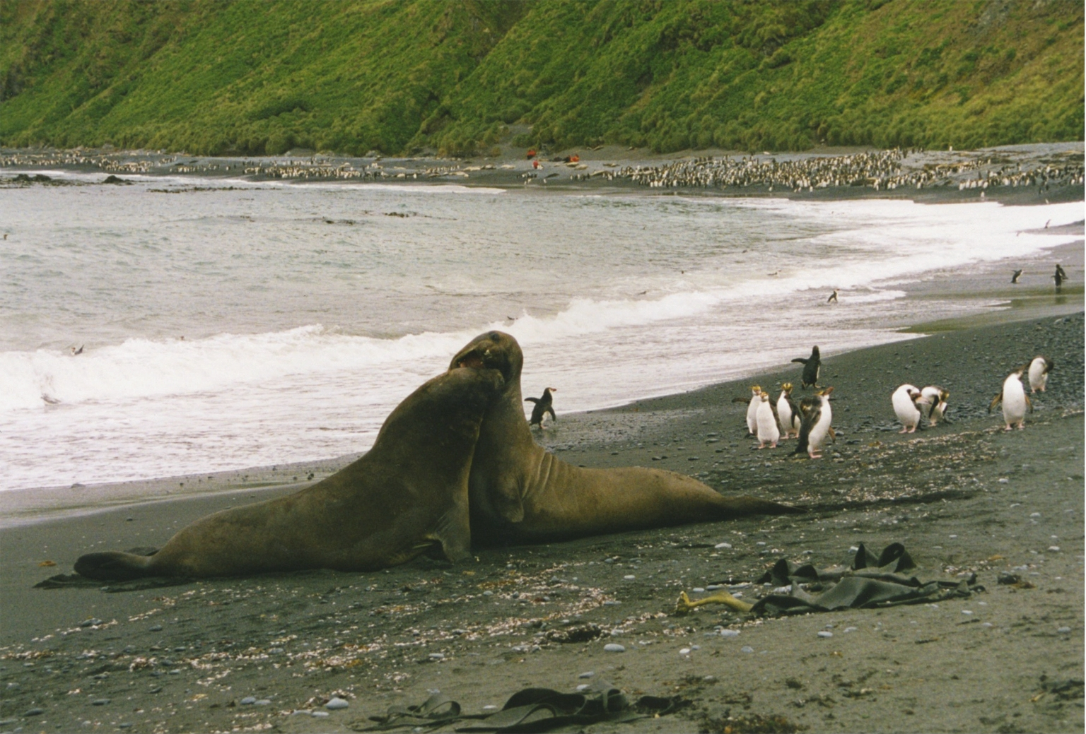 Royal Penguins are watching Southern Elephant Seal fighting. These are young seals and the fight is play fight on Macquarie Island.The image is a scan of my old print The image was taken by Brocken Inaglory